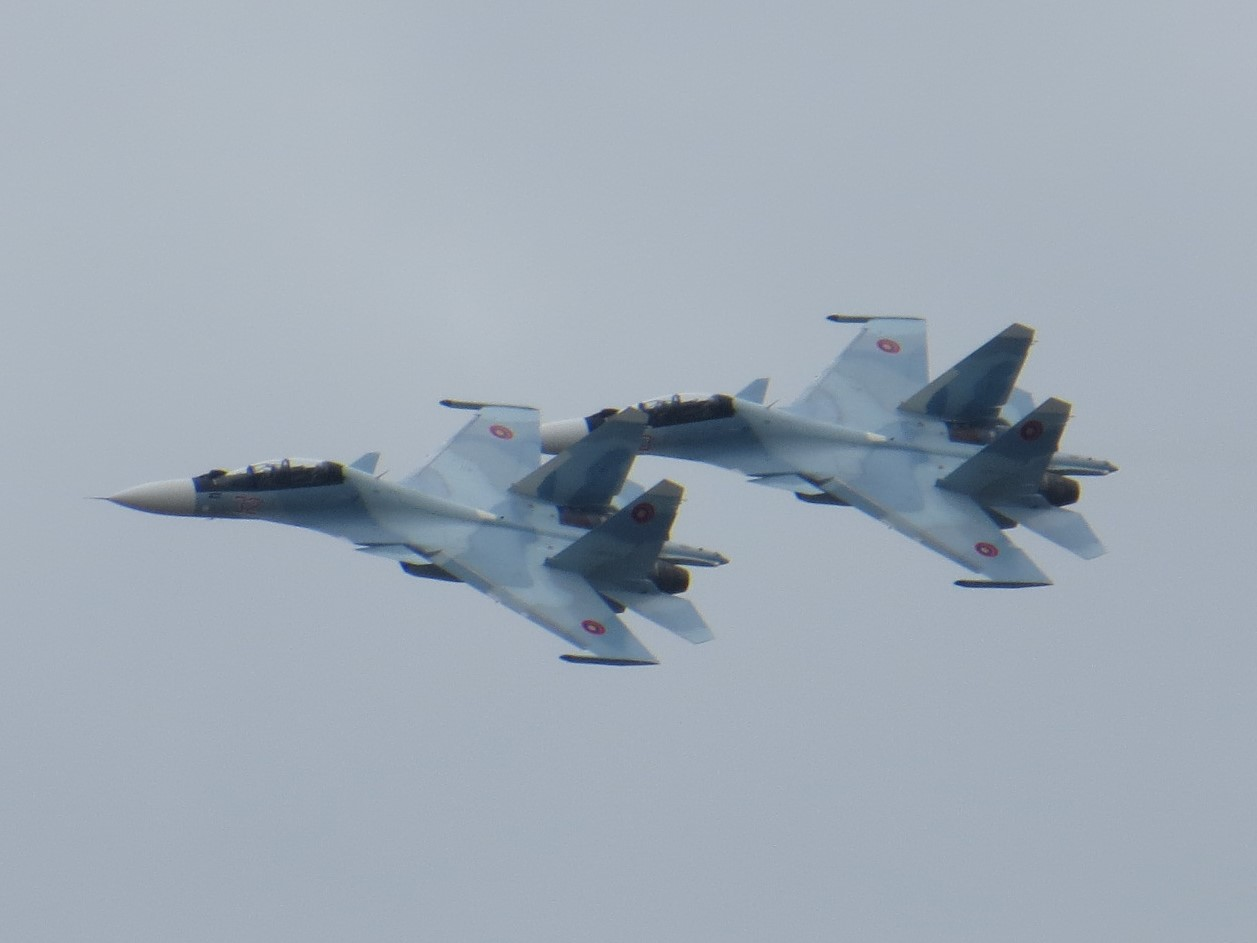 Armenian Air Force jets on Victory Day (May 9) 2020